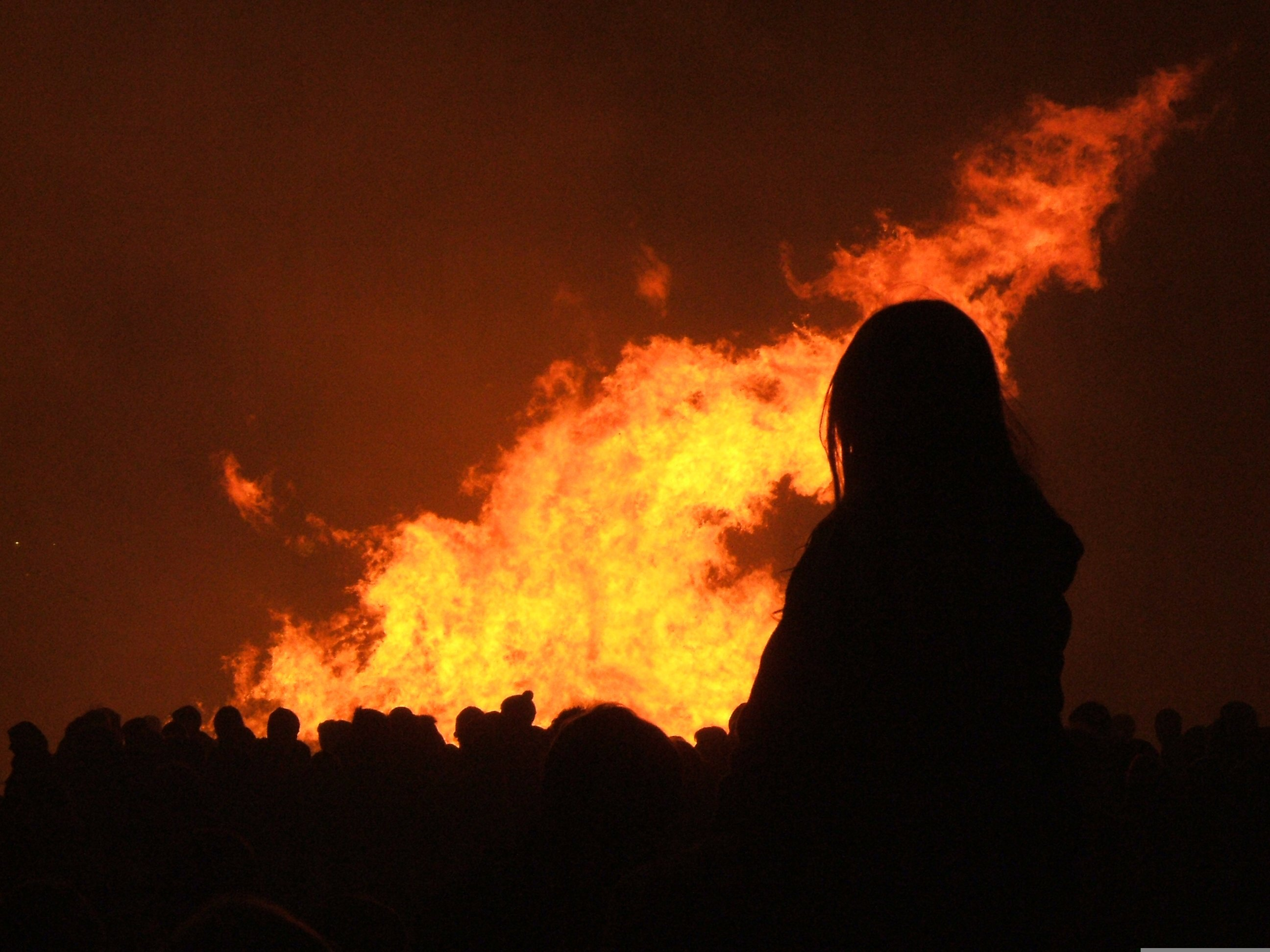 Images taken during the legendary Lewes Bonfire Night Celebrations on 5th of November 2007.